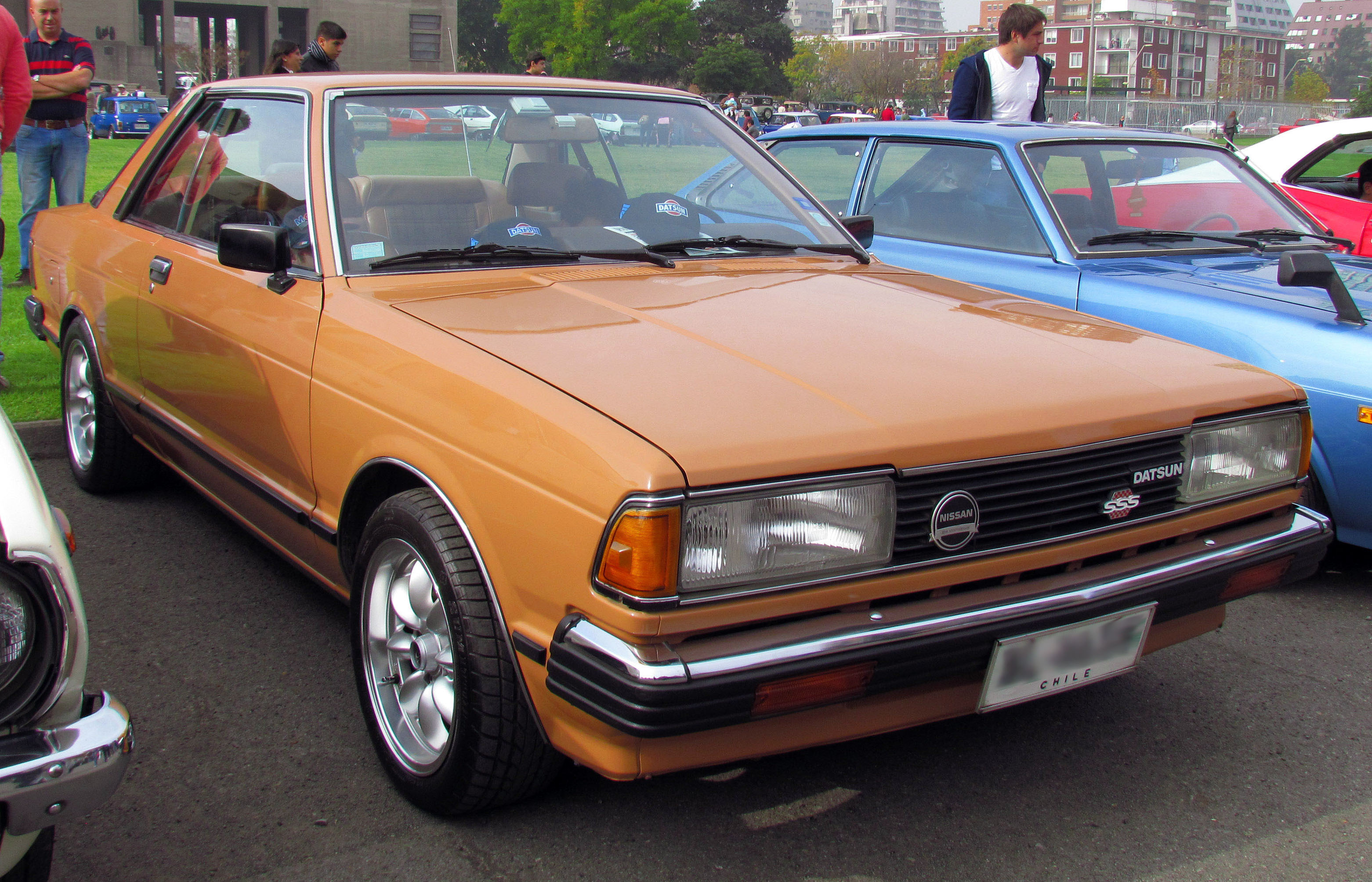 1982 Datsun Bluebird 1.8 SSS Coupé. Shame about the Minilites.